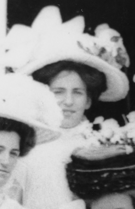 Gertrude Clark, later Gertrude Hillary, mother of Sir Edmund Hillary. Detail from photograph of people at the wedding of William Mathews and Edith Clark, Whakahara, Nothern Wairoa, Northland. Photographed by an unknown photographer on the 28th of September 1909. The marriage took place in Tekopuru Church. The reception was held at Whakahara homestead, Northern Wairoa. Original: Silver gelatin print, 23.7 x 19 cm.